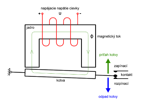 operation principle of neutral relay Princíp fukcie neutrálneho relé.